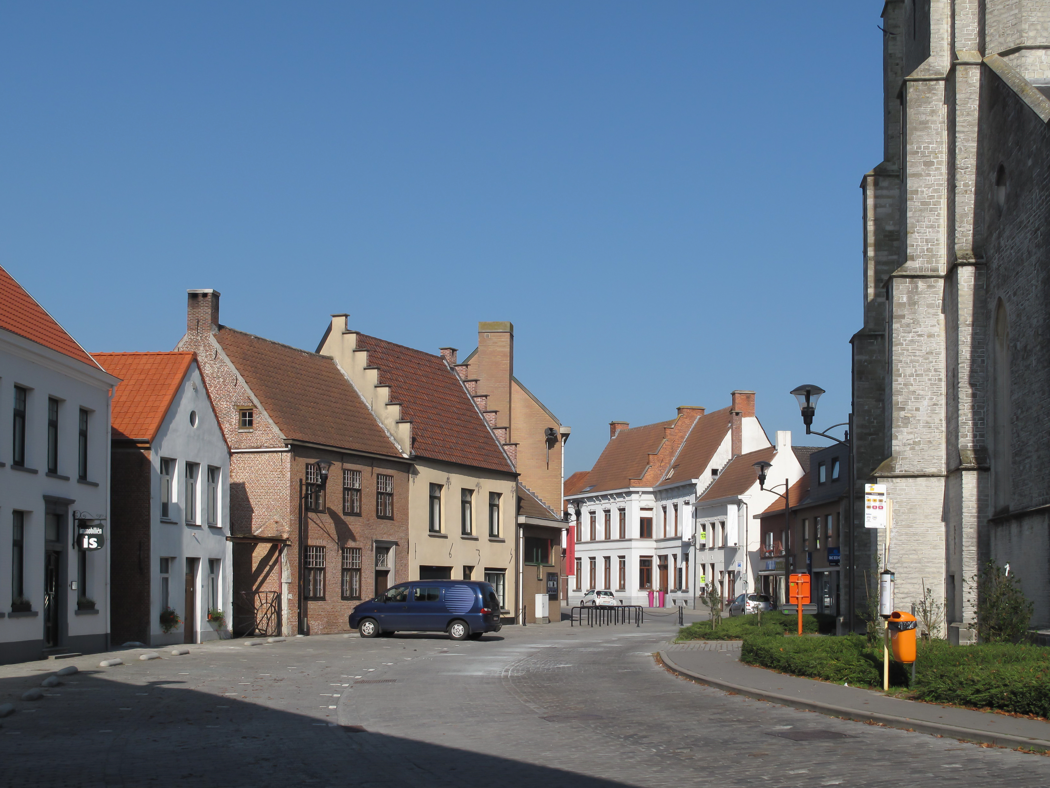 Waasmunster, view to a street